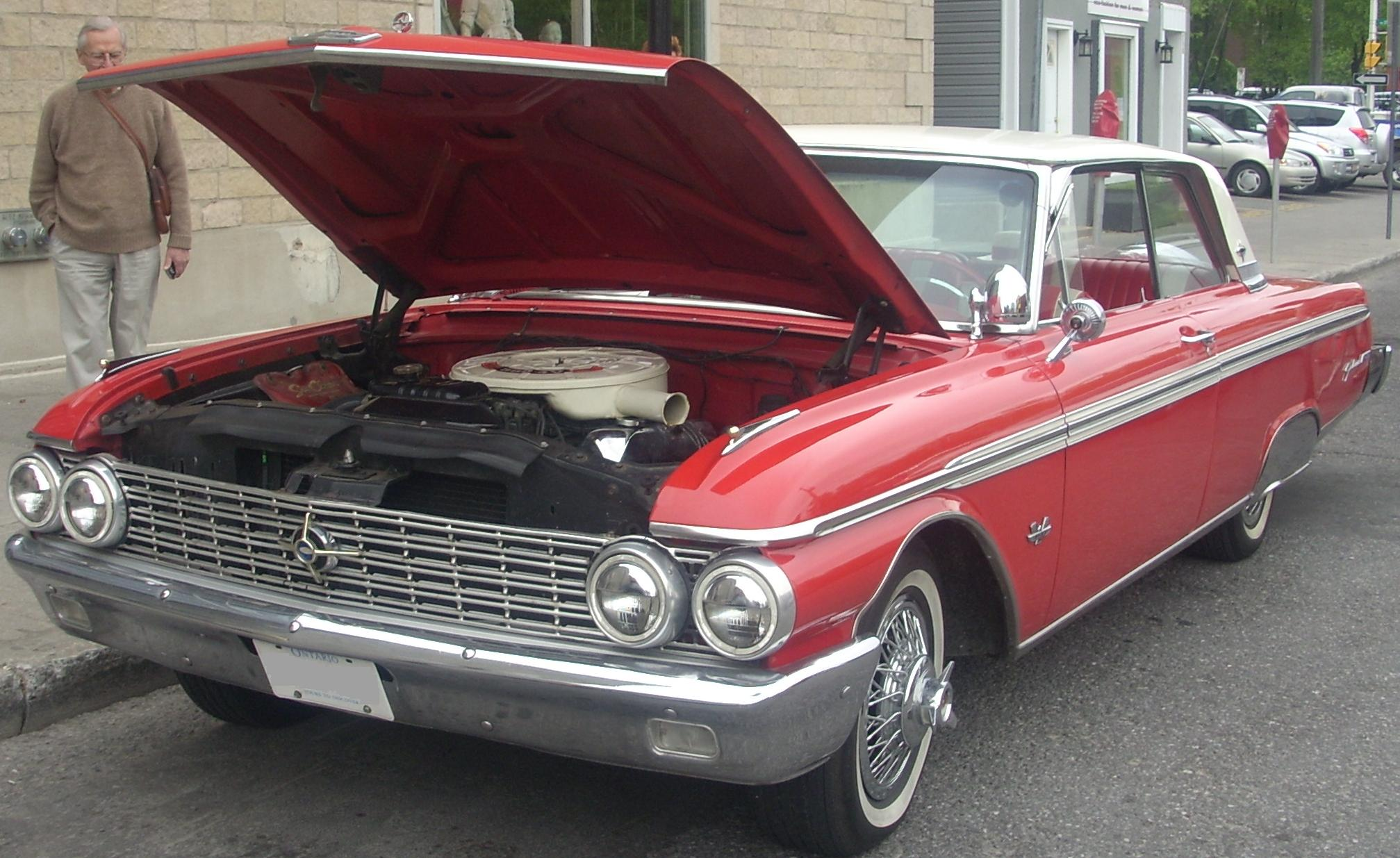 Ford Galaxie photographed in Ottawa, Ontario, Canada at the Byward Market Auto Classic 2009.